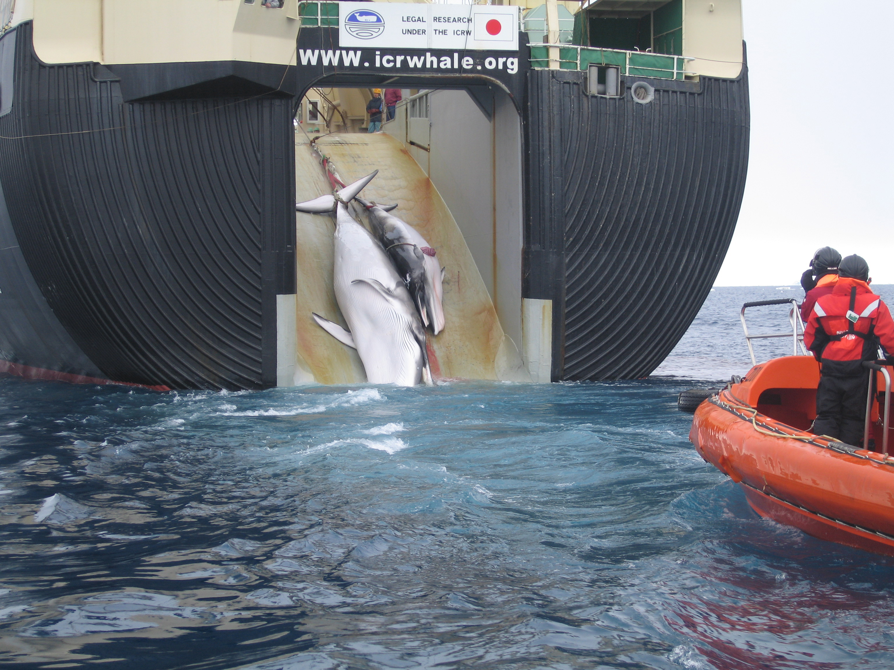 An adult and sub-adult Minke whale are dragged aboard the Nisshin Maru, a Japanese whaling vessel that is the world's only factory whaling ship. The wound that is visible on the calf's side was reportedly caused by an explosive-packed harpoon. This image was taken by Australian customs agents in 2008, under a surveillance effort to collect evidence of indiscriminate harvesting, which is contrary to Japan's claim that they are collecting the whales for the purpose of scientific research. In 2010, Australia filed a lawsuit in the International Court of Justice hoping to halt Japanese whaling; this photograph will undoubtedly play a key role in that pending case.